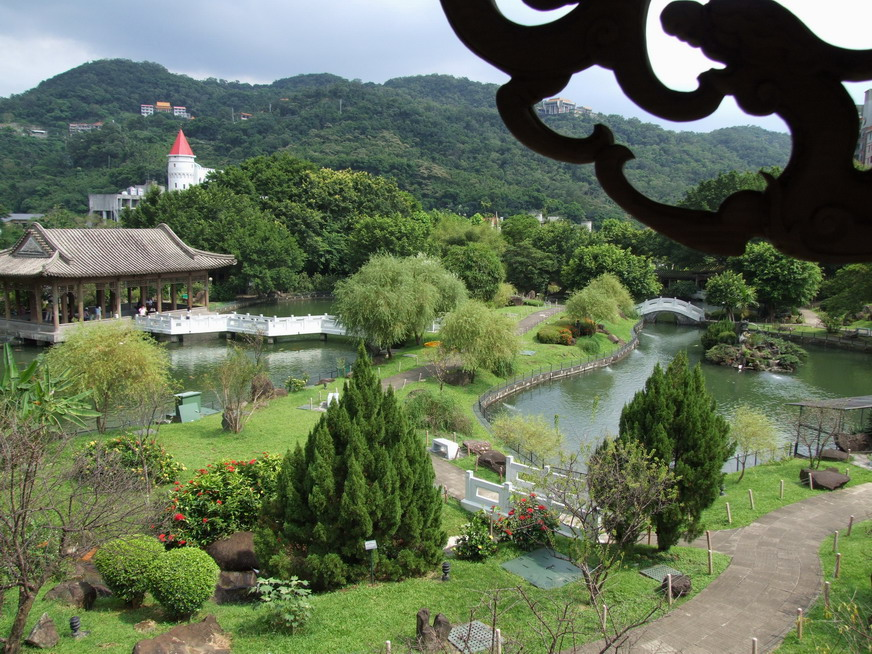 traditional chinese garden in National Palace Museum in Taipei, Taiwan